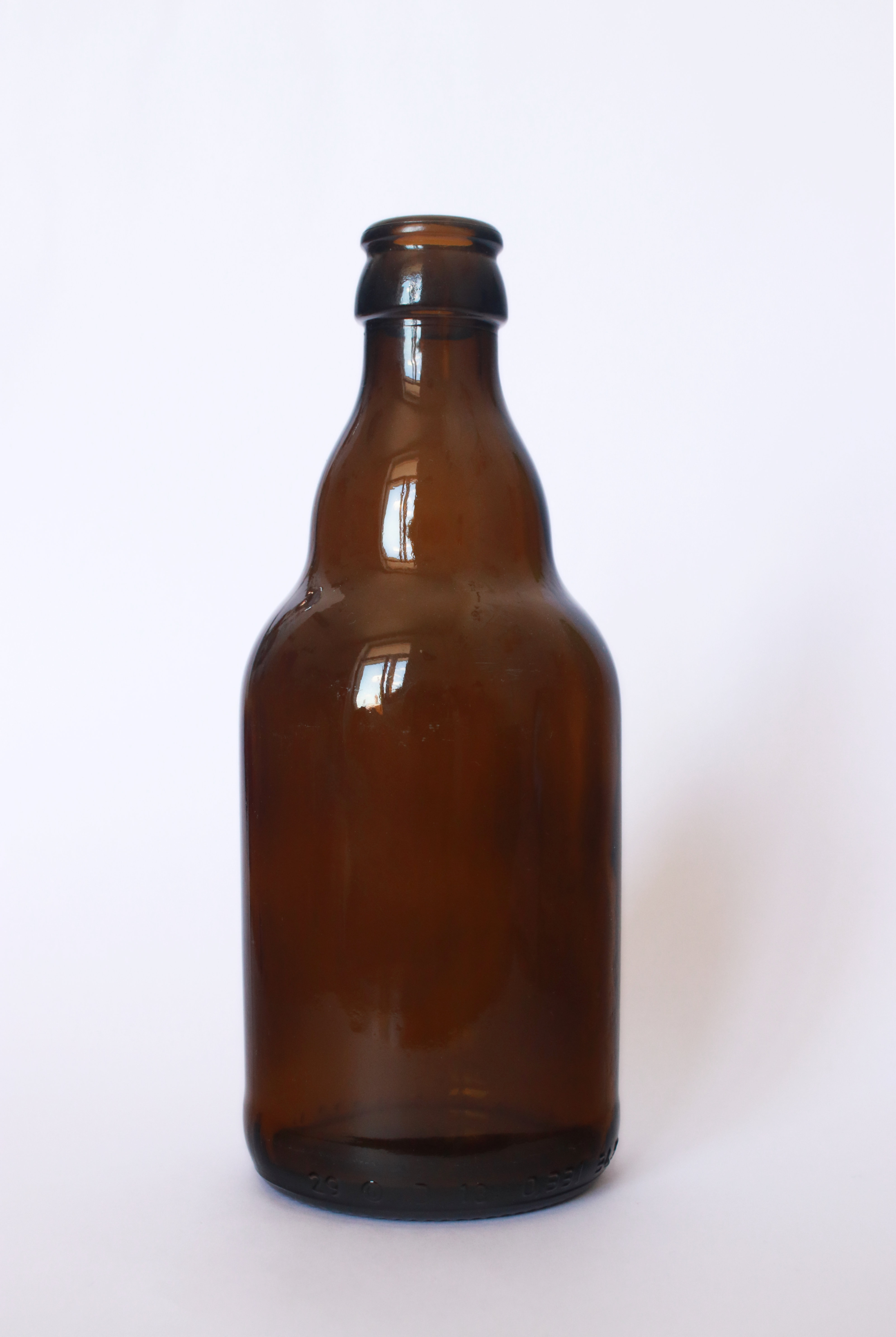 Empty beer bottle, colour: brown, size: steinie, volume: 0.33 l, bottle top: crown cork